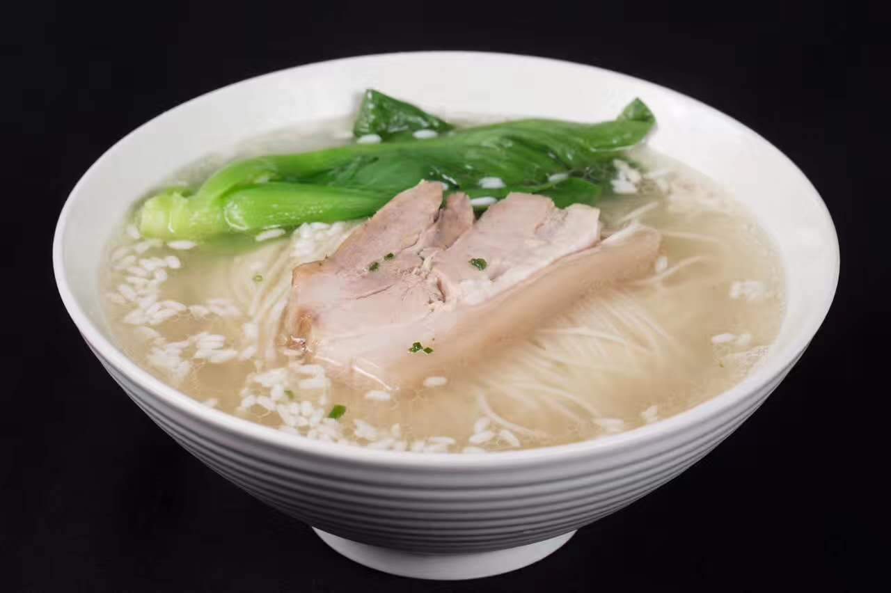 Feng Town Noodle(white soup)